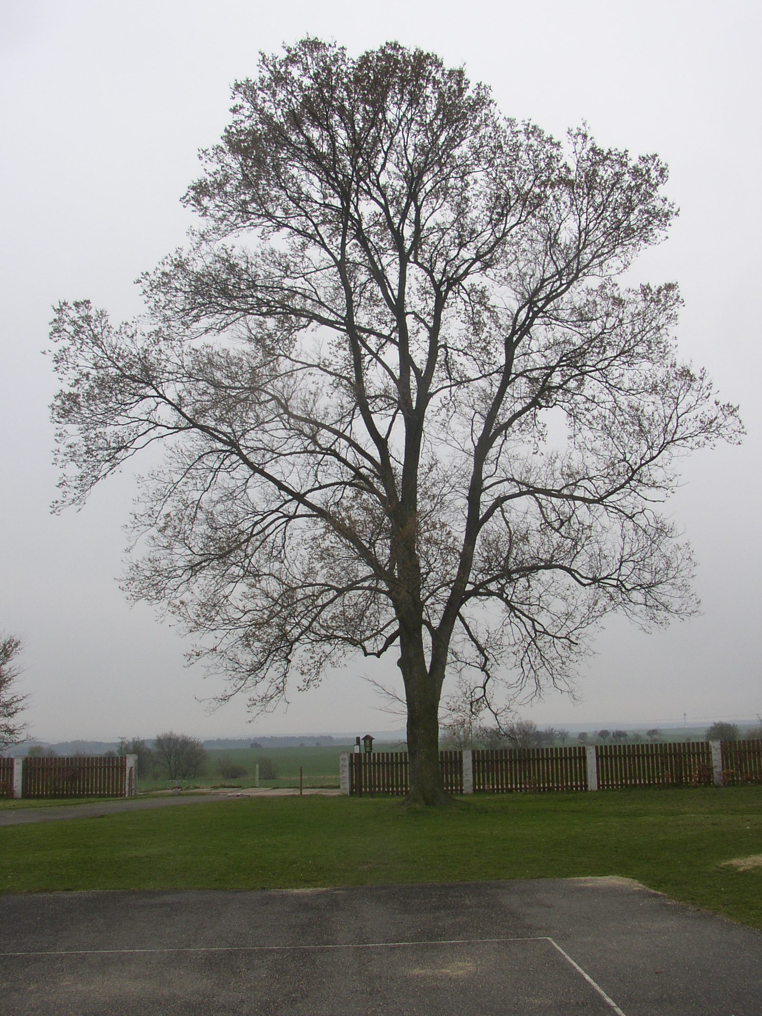 Matoušův jilm ("Matthew's Elm"), protected example of European White Elm (Ulmus laevis) in village of Kounov, Rakovník District, Central Bohemian Region, Czech Republic. Height 25 m, circumference 251 cm.